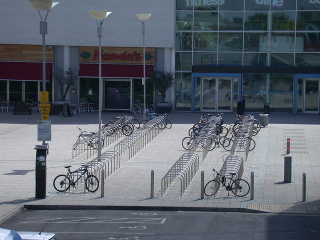 Cycle racks at Cineworld Empty cycle racks are a rare sight in Cambridge: outside a cinema on a Sunday morning is one place you might find them. This view is from Hills Road bridge.